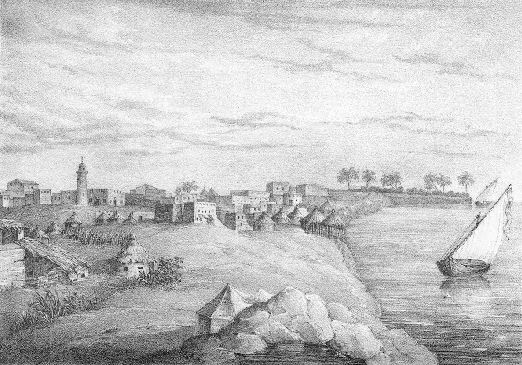 Sennar as seen by Joseph Russegger, who crossed the Turkish Sudan between 1836 and 1838.